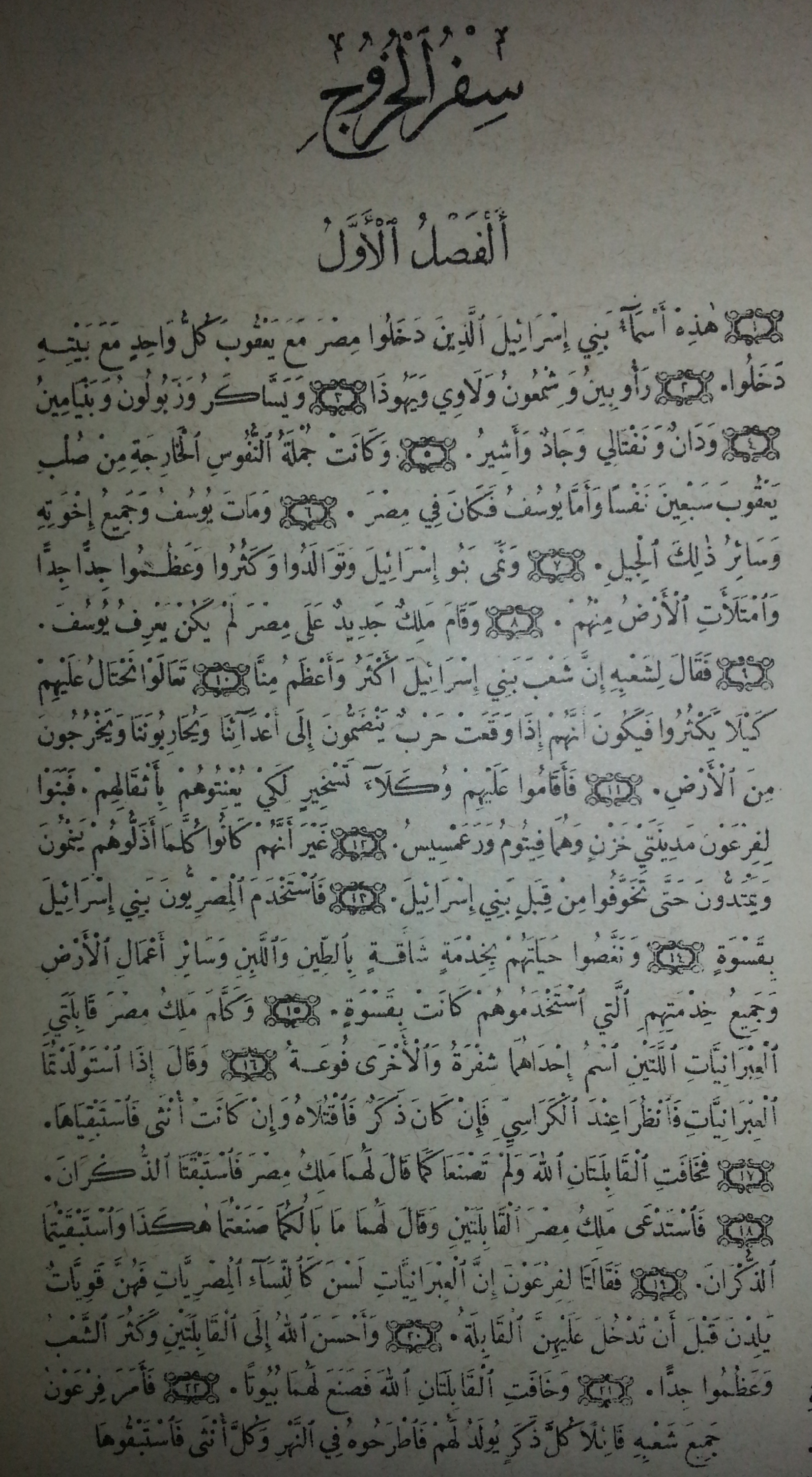 1st page of the book of exodus in Arabic